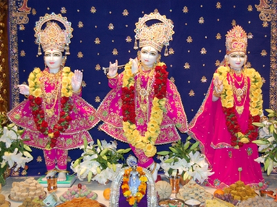 Deites at Swaminarayan Temple Auckland